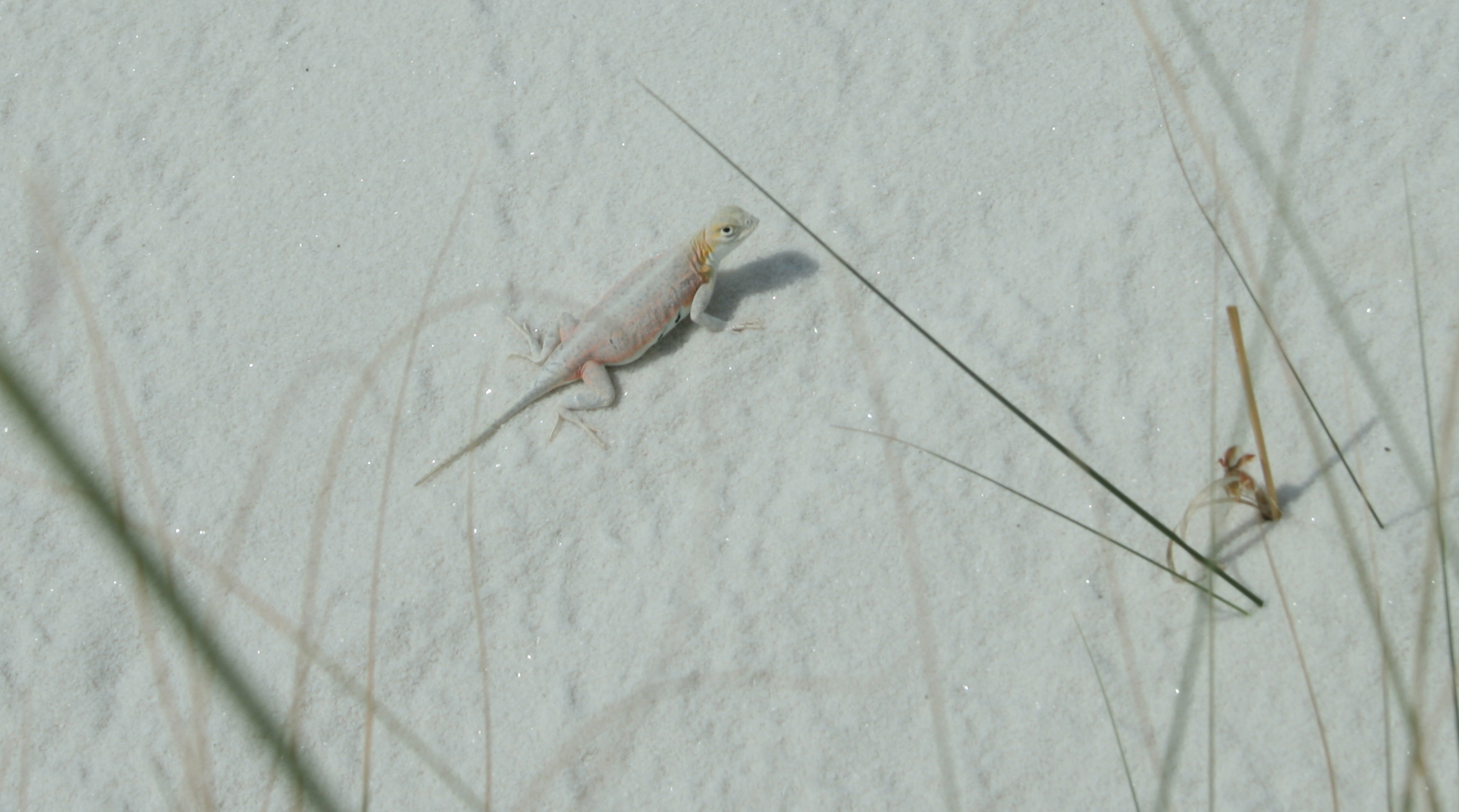 Bleached earless lizard (Holbrookia maculata ruthveni)